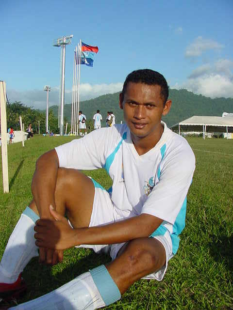 Sekifu